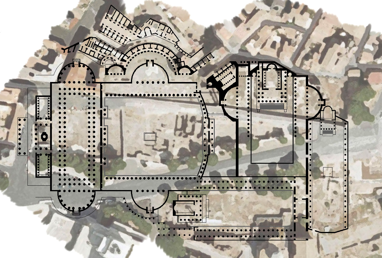 Imperial fora overlaped